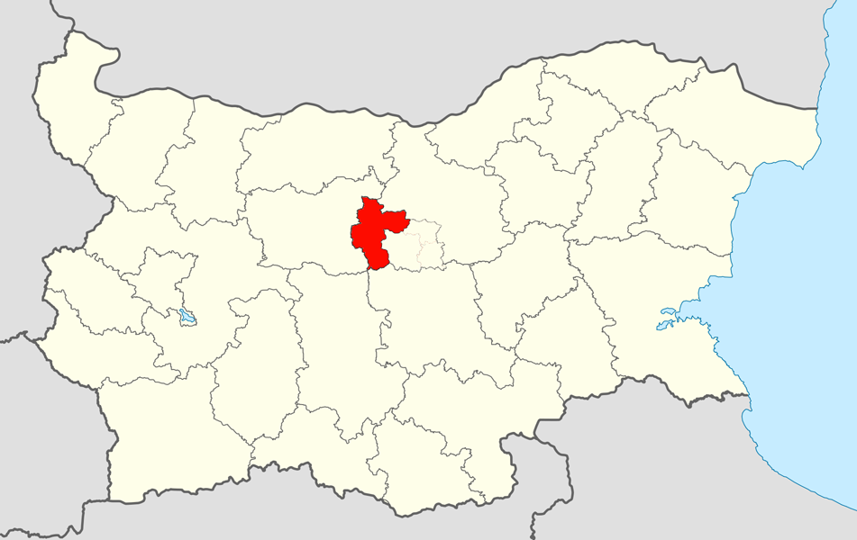 Location map of Sevlievo Municipality within Gabrovo Province, Bulgaria. Equirectangular projection, N/S stretching 130 %. Geographic limits of the map: N: 44.4° N S: 41.1° N W: 22.1° E E: 28.9° E